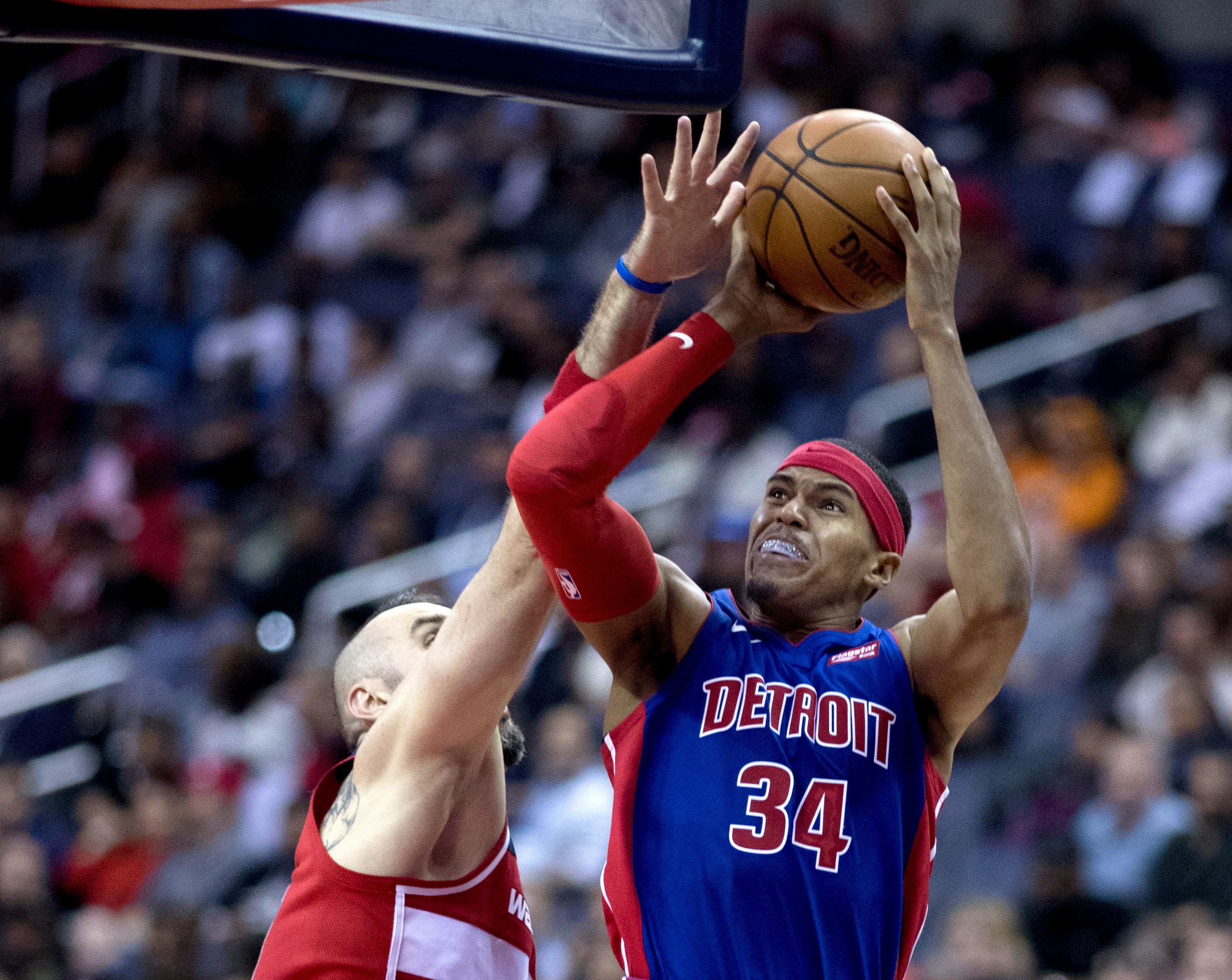 Pistons at Wizards 10/20/17